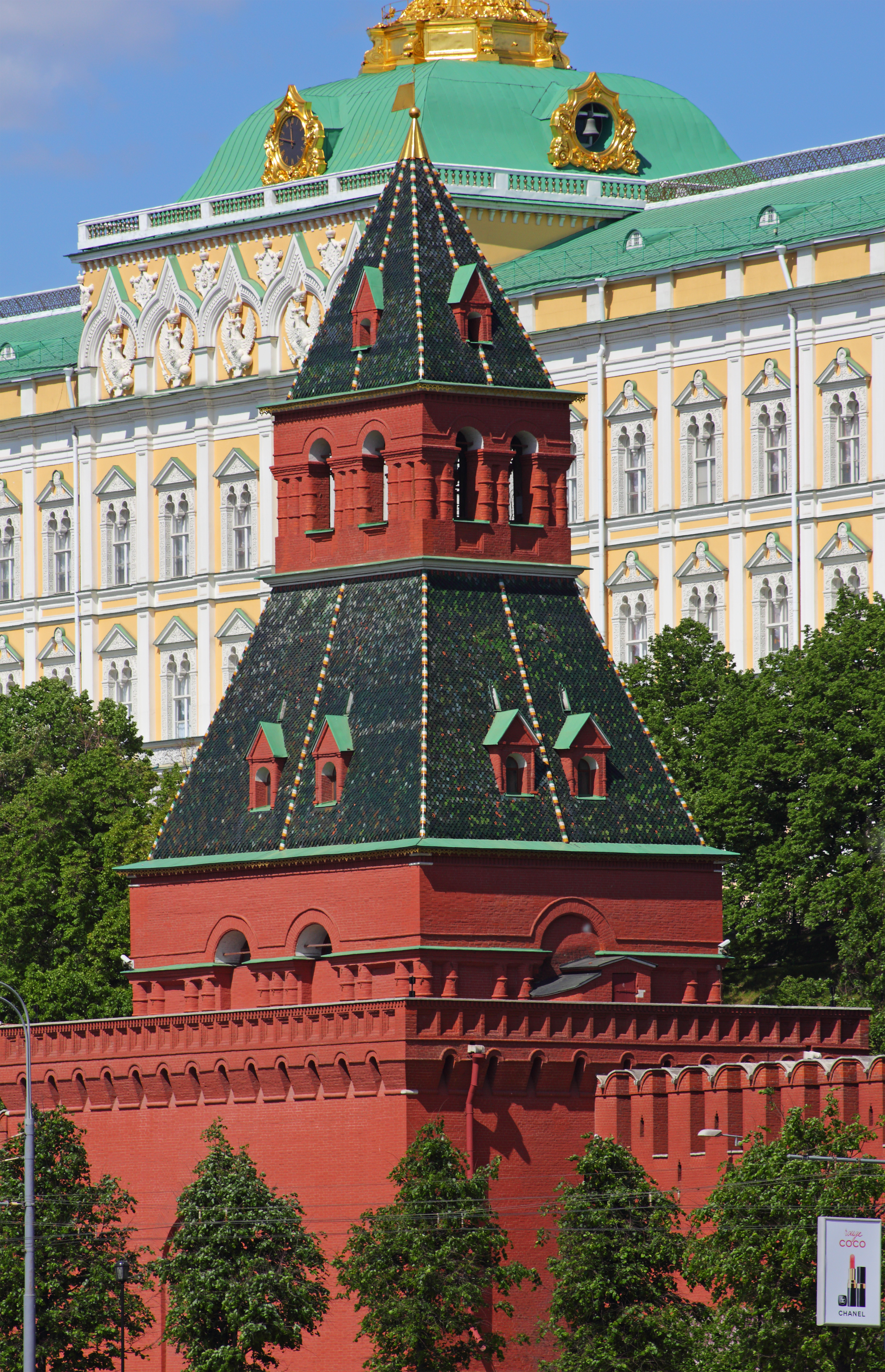 Moscow, Russia. Taynitskaya (Secret Corridor) Tower of the Moscow Kremlin.